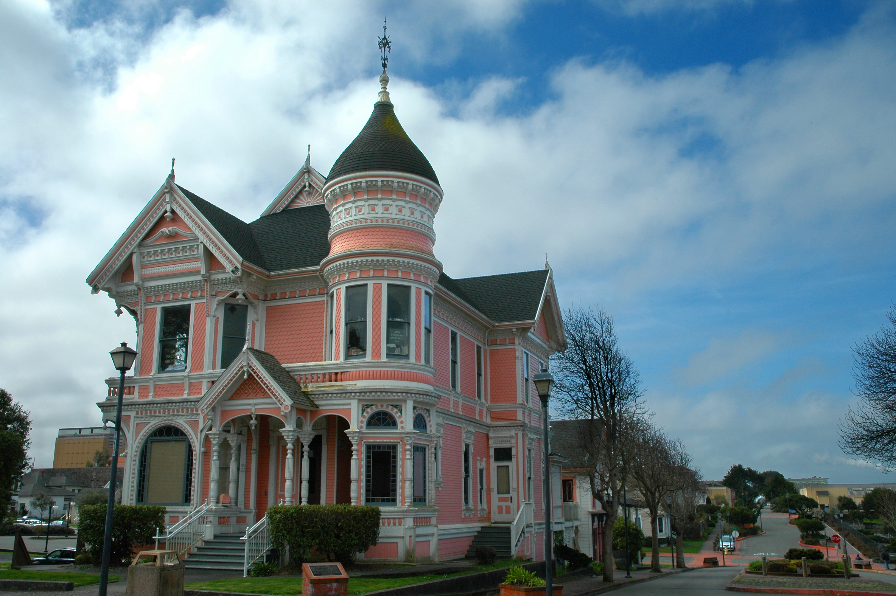 This ornate Queen Anne Victorian at 2nd and M Streets, Eureka, California was built as a wedding gift for J. Milton Carson by his father William Carson. Locally known as "the Pink Lady" it is across the street from the Carson Mansion. After Milton Carson sold the house, it ended up in the ownershp of two sisters in Germany, was seized by the U.S. Government as Nazi property in 1942, sold at public auction in 1951 to television actor Lloyd Bridges's father. The next owner restored the property which is a contributing property to the Old Town Eureka Historic District.